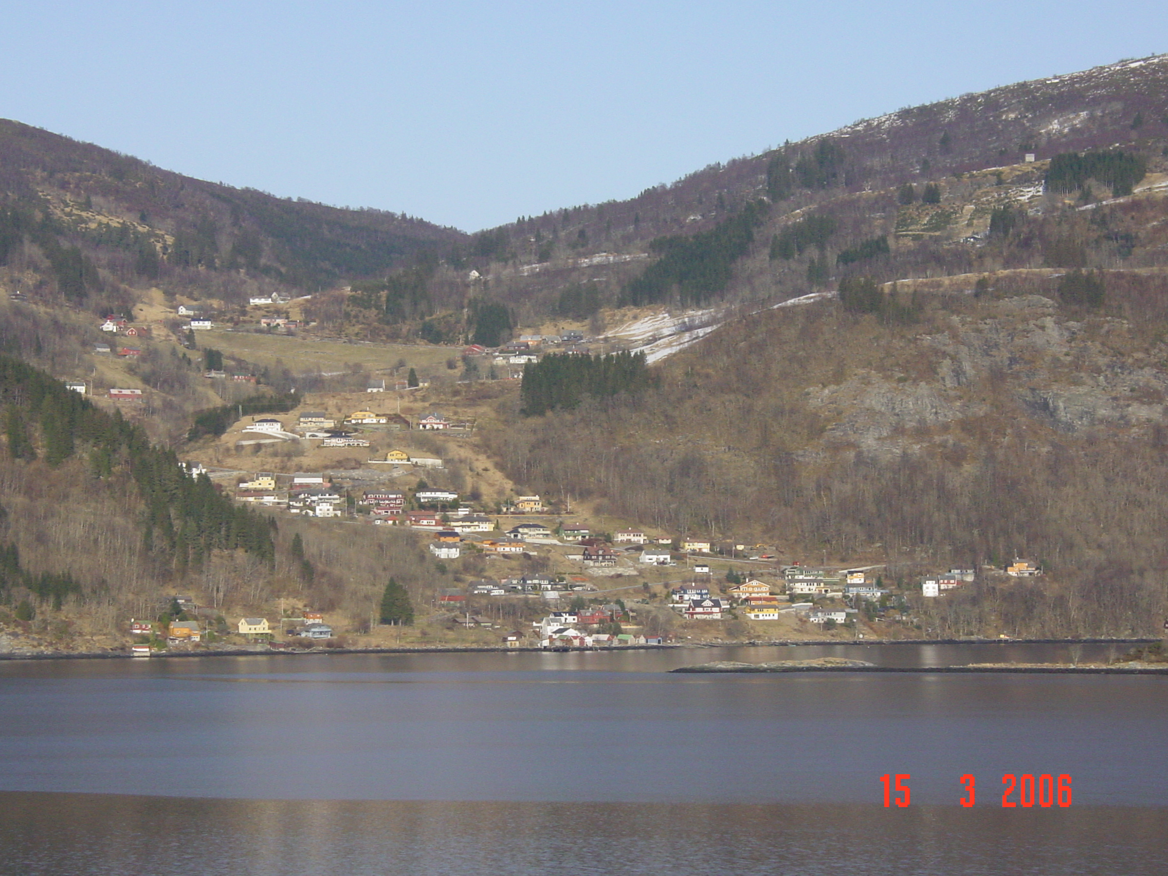 The Norwegian settlement of Votlo viewed from Ytre Arna.